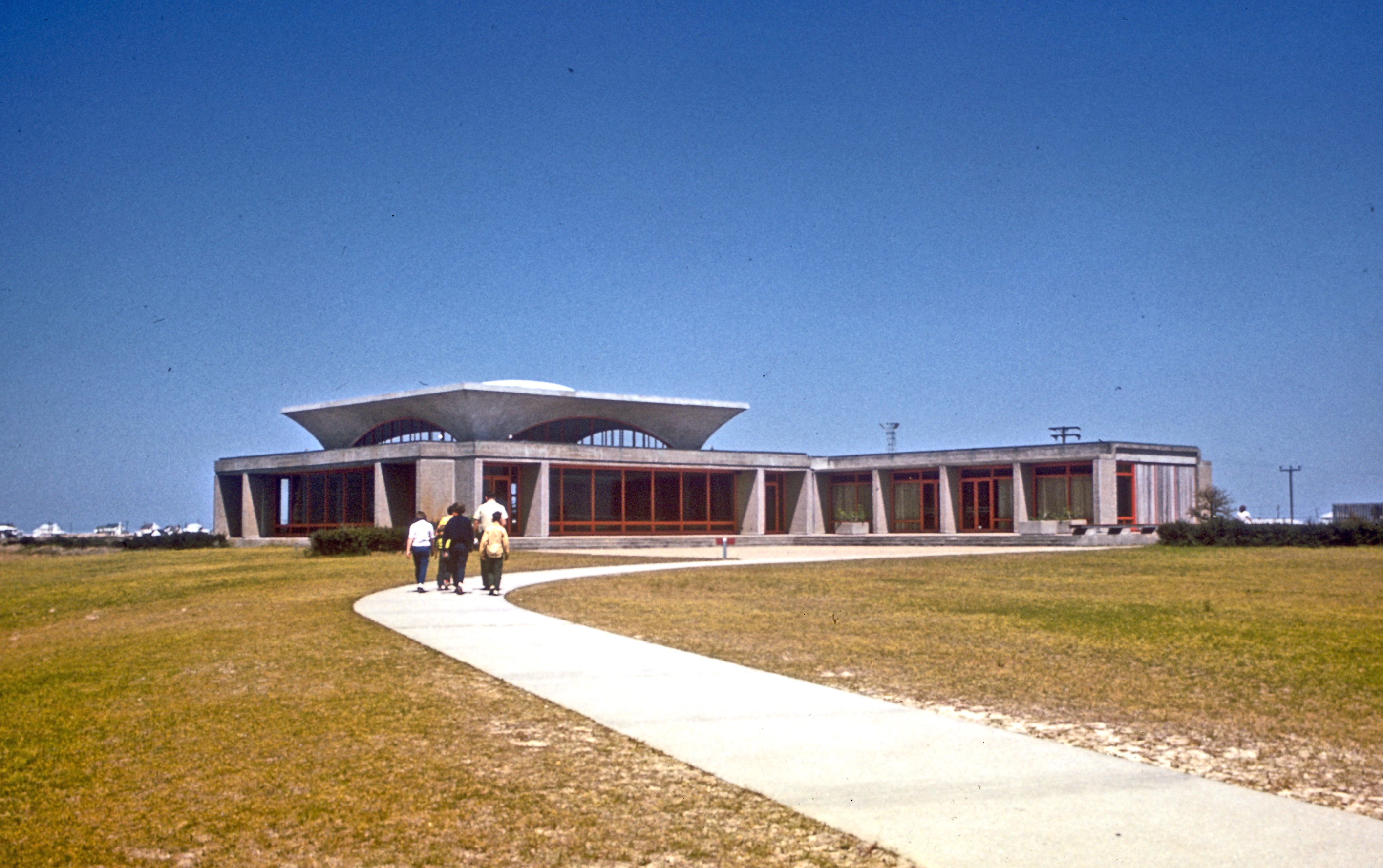 Wright Brothers National Memorial visitor center shortly after completion, Kill Devil Hills, North Carolina, USA. Part of the Mission 66 program.